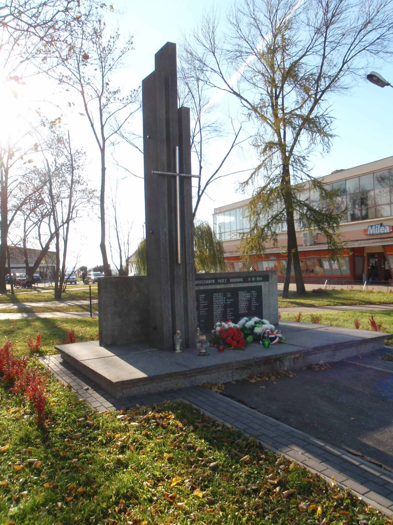 Monument commemorating prisoners of Lublin's Castle (AK soldiers) killed by Germans in execution in 1944 in Kurów, Poland